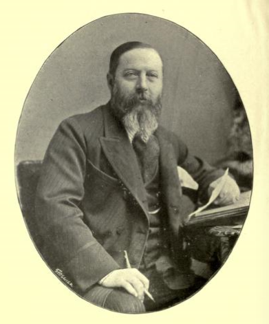 Photograph of the medium William Stainton Moses